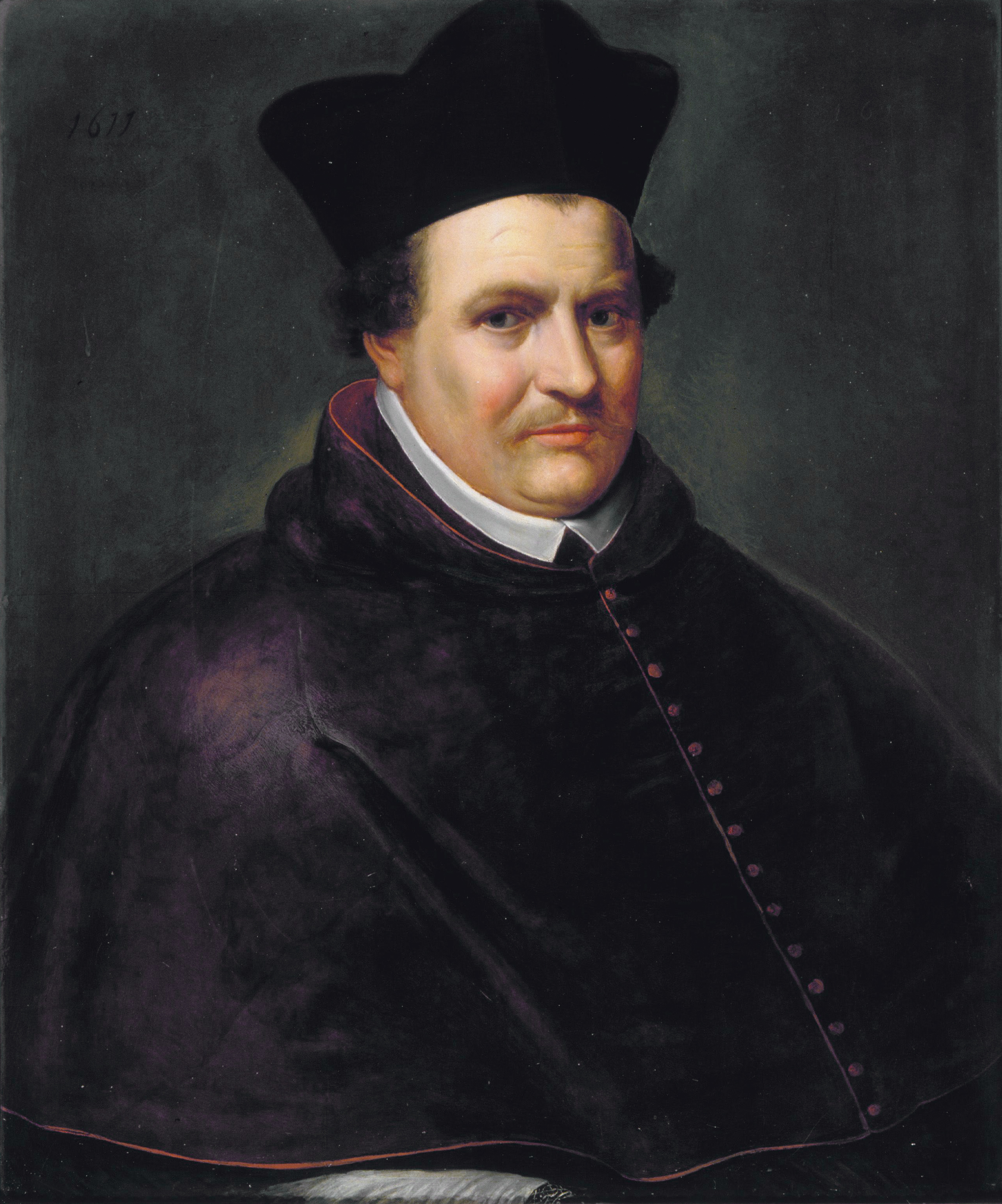 Jan Miraeus, 4th Bisshop of Antwerp.label QS:Len,"Jan Miraeus, 4th Bisshop of Antwerp." label QS:Lnl,"Jan Miraeus, 4de Bisschop van Antwerpen."